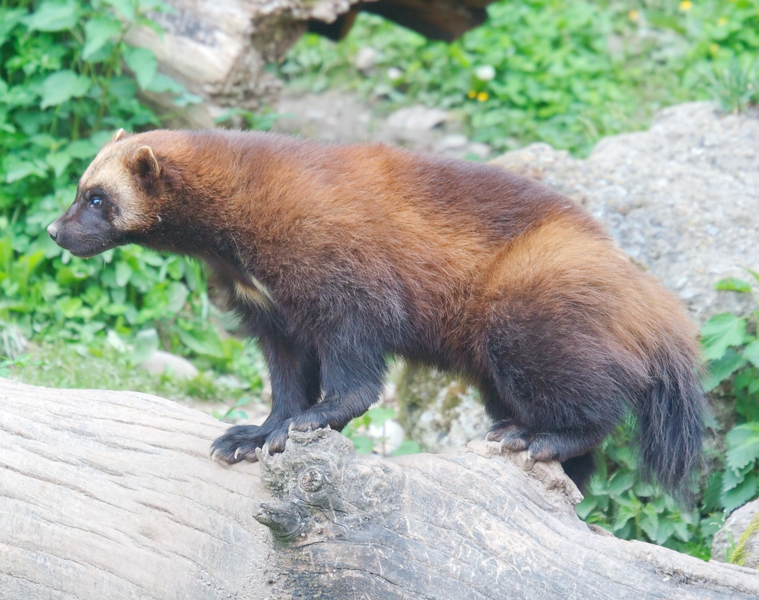 Wolverine